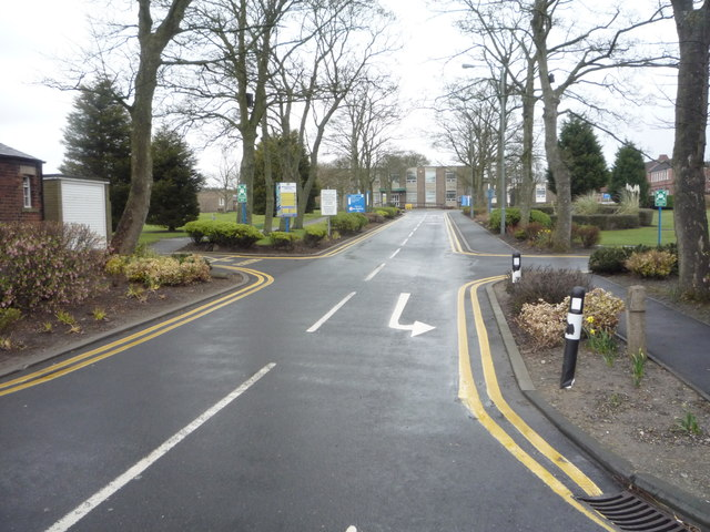 Access road to Lanchester Road Hospital